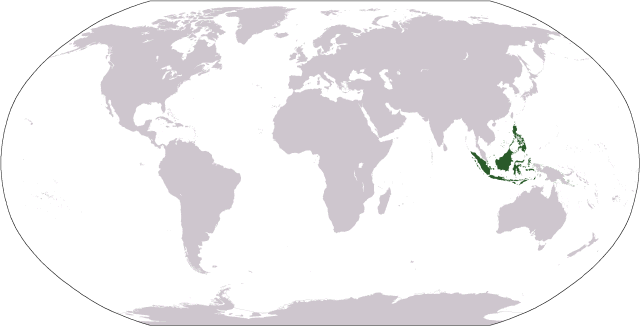 corrected version of Location_Malay_Archipelago.png